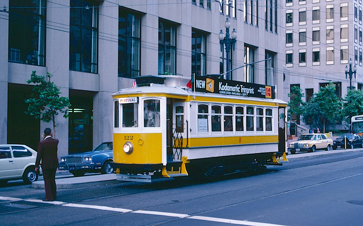 During the first San Francisco Historic Trolley Festival, in 1983, Porto car 122 (a 1909 Brill trolley), is eastbound on Market Street at First Street. It was adorned with U.S. and Portuguese flags on its roof. The following year, this streetcar was sold to the McKinney Avenue Transit Authority, in Dallas, Texas, and it entered service on that organization's streetcar line in Dallas when the line opened, in 1989.